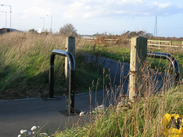 National Cycleway? Although it doesn't seem to have found its way onto the internet yet, this newly laid out cycle way links River Lane, Saltney (from opposite the closed Co-operative store), along the Welsh bank of the River Dee/Afon Dyfrdwy, to the Saltney Ferry footbridge. Crossing the footbridge gives you access to a traffic free route to Chester or Queensferry, and links in to the national network of cycle paths. The dark line on the horizon is the footbridge.